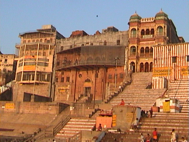 See Varanasi Development Cooperation Handbook/Stories/Responsible Development - Varanasi The Varanasi Heritage Dossier Kautilya Society Play media Vrinda Dar - How we got involved in heritage protection of Varanasi